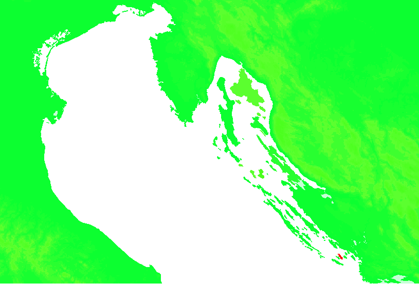 Island of Croatia Croatia - Kaprije.PNG